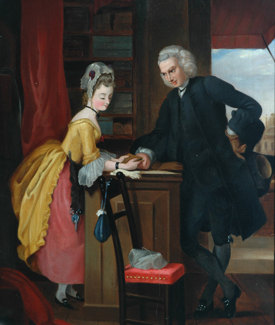 Painting depicting a scene from 'A Sentimental Journey' where Parson Yorick believed to be Sterne is visiting Paris and goes into a glove shop to ask for directions but becomes distracted by the beauty of the shop assistant and ends up buying a pair of gloves. Painting is in a gold, gilt frame. There is very little written about the artist but it is believed he was friends with Frith. See object CCWSH 1167